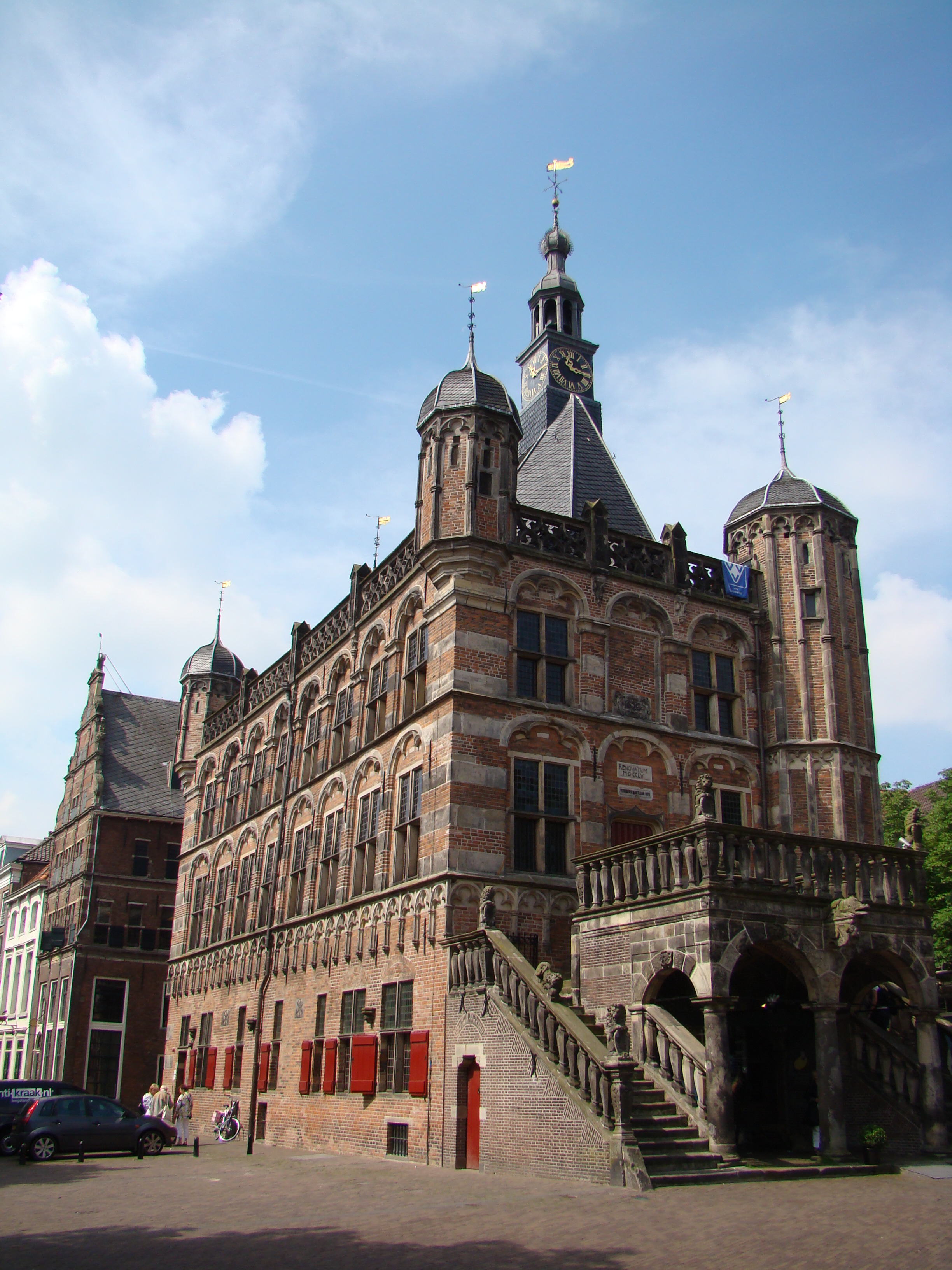 "Waag" at Deventer (Netherlands)